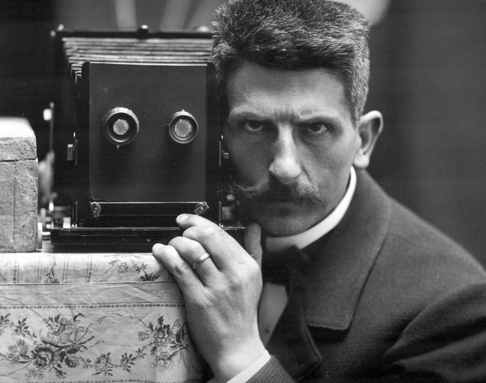 Self picture of Swiss photographer Frédéric Boissonnas, 1900